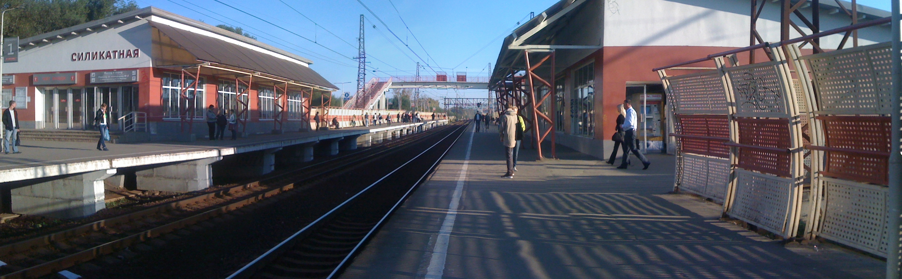 Silikatnaya railstation